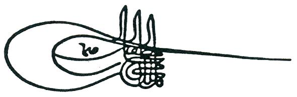 Tughra (i.e., seal or signature) of Bayezid II, Sultan of the Ottoman Empire (1481-1512). An explanation of the different elements composing the tughra can be found here.